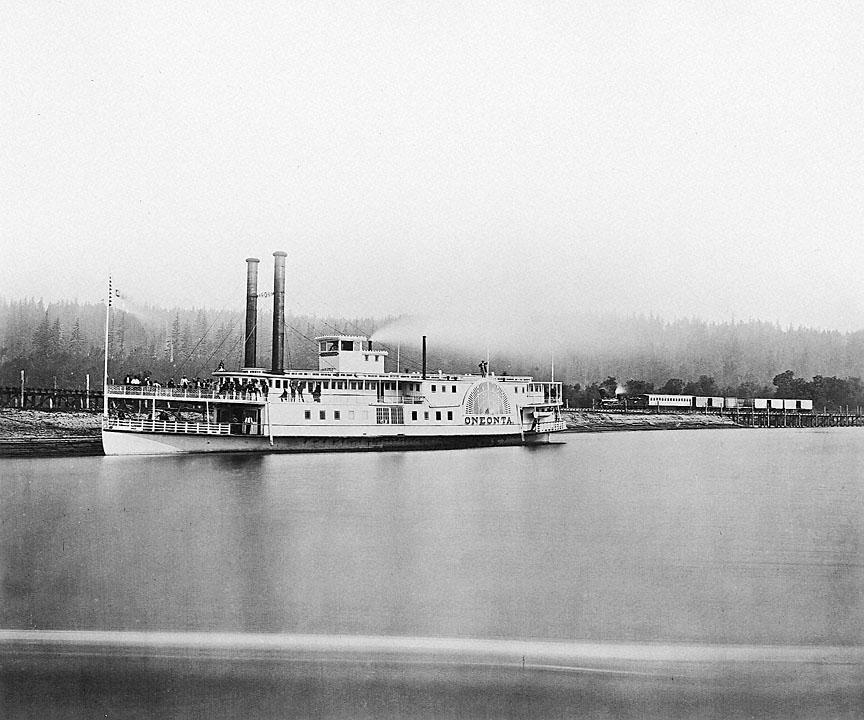 Oneonta sidewheeler, on Columbia River, at upper Cascades, 1867. Portage railway and train are also shown.